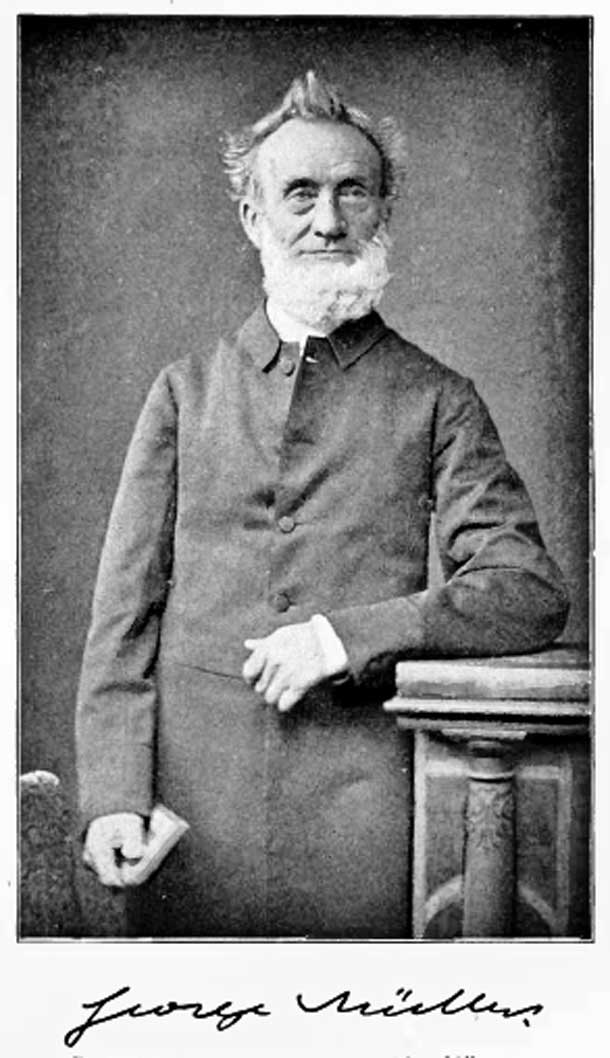 From:George Muller of Bristol by Arthur T. Pierson; New York; The Baker and Taylor Company; 1899